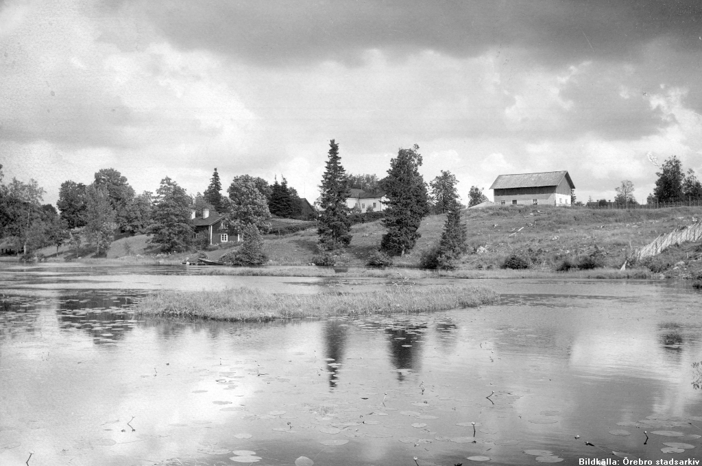 The village Ramshyttan outside Örebro, Sweden